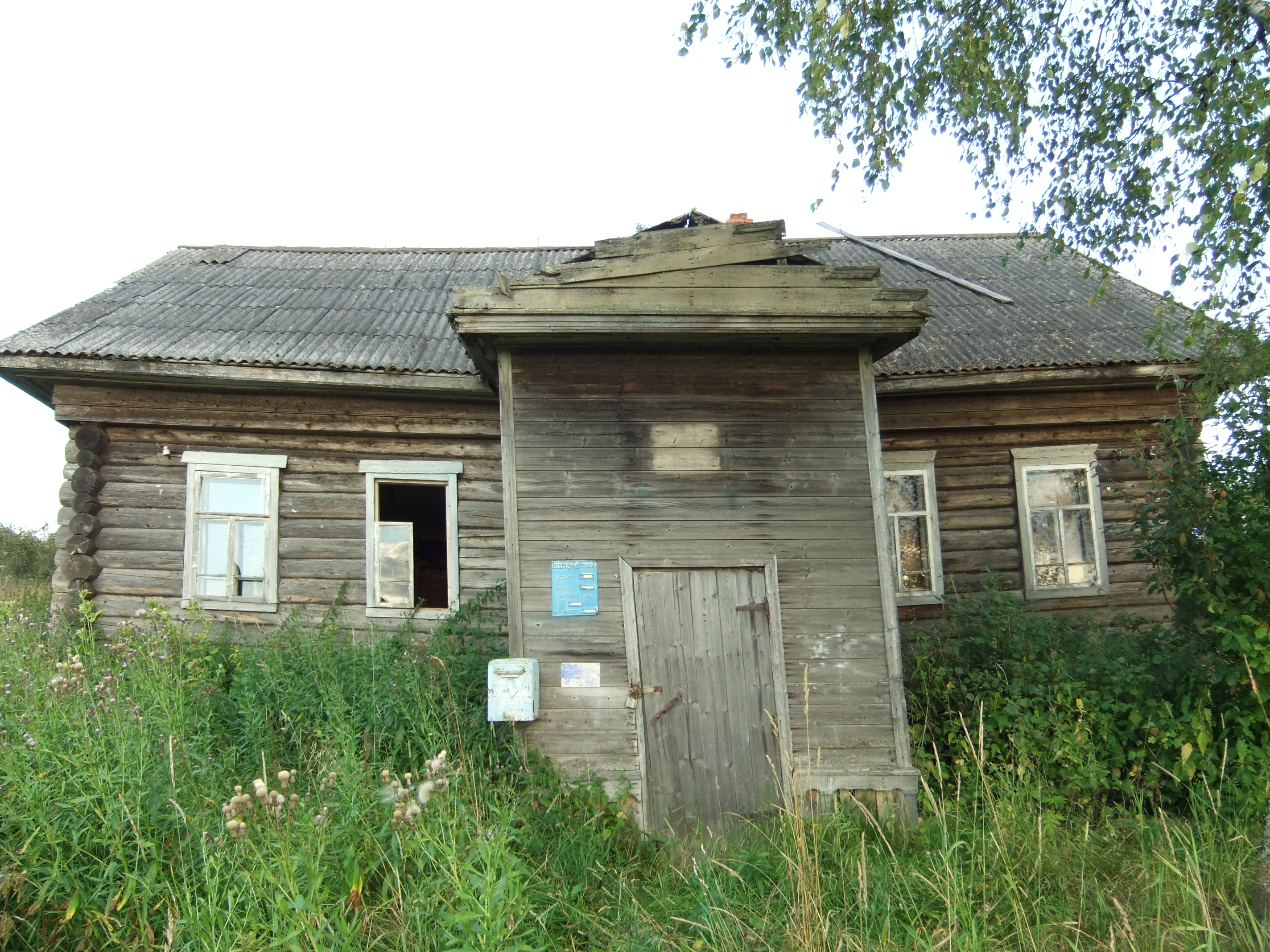 Abandoned post office / savings bank building in Menkovo village (Yaroslavl Oblast.